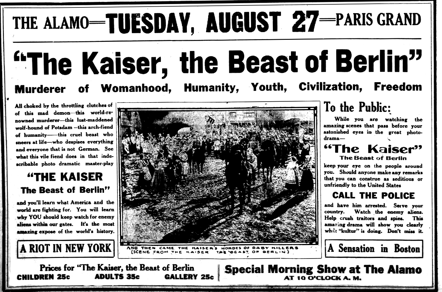 Newspaper ad for the film "The Kaiser, the Beast of Berlin". Also showing how to spy one one's neighbors and call police if anything abnormal is seen.